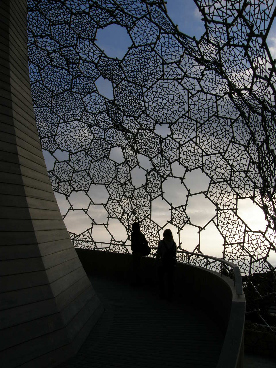 Rokko-shidare -Rokko garden terrace